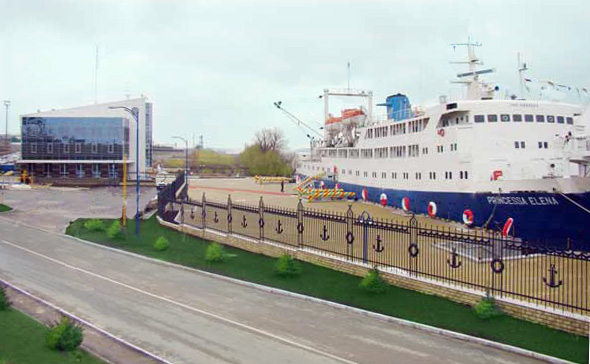 Giurgiulesti harbour, Moldova, Danube